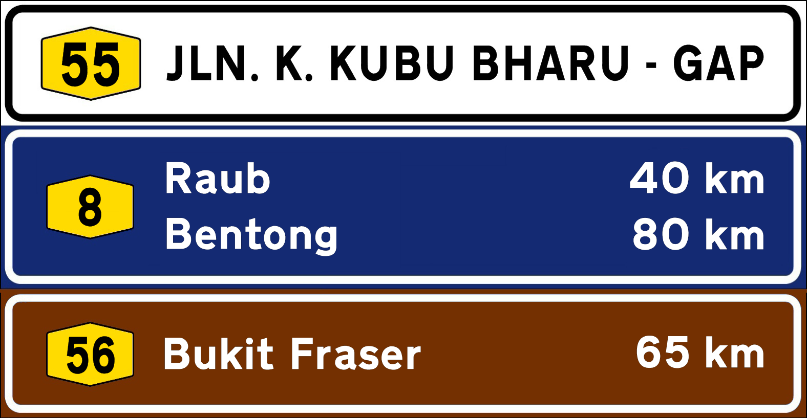 Federal Road distance sign with road name and tourist destination